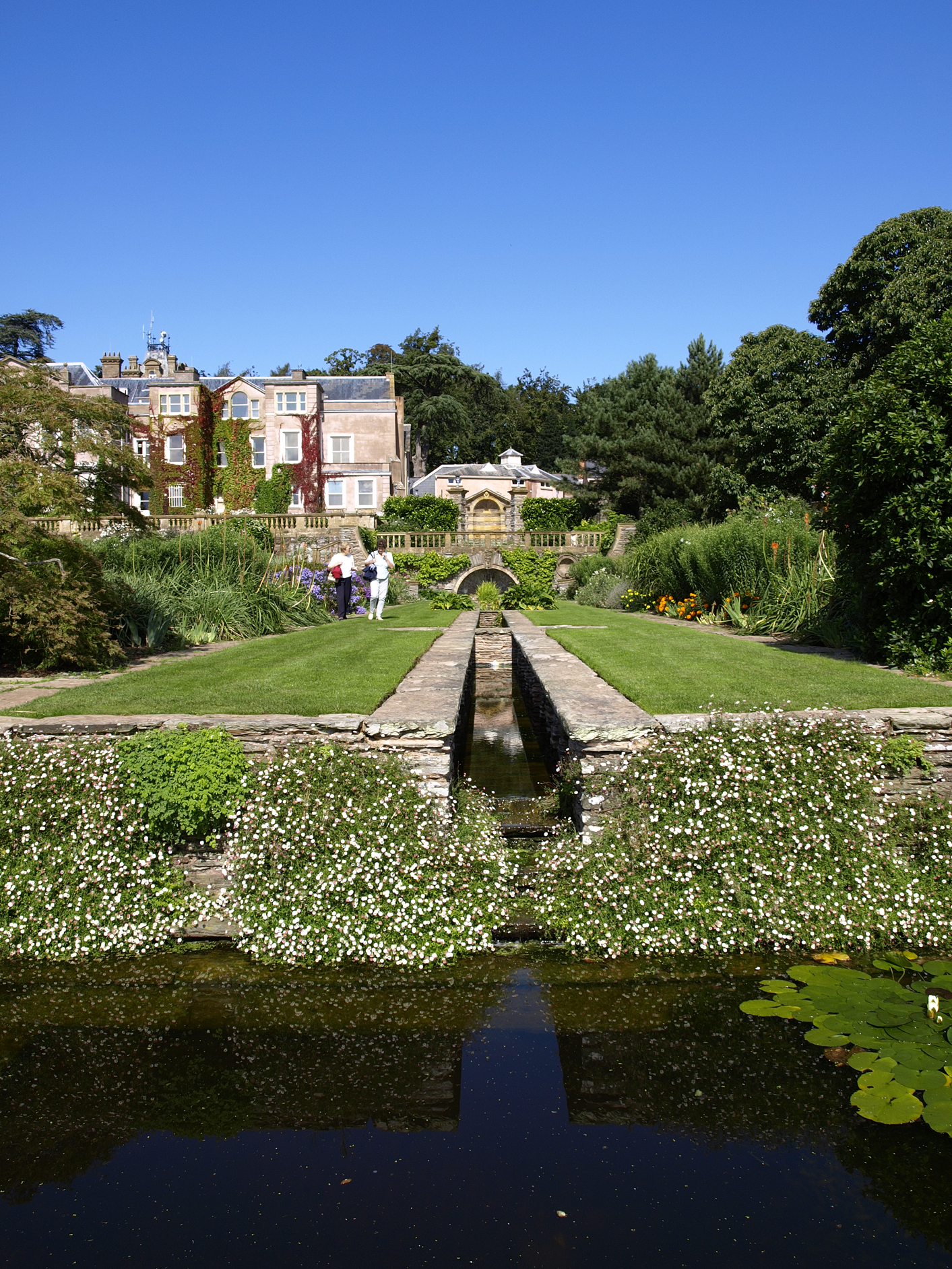 Hestercombe Gardens, Taunton, Somerset, UK. Designed by Sir Edward Lutyens and established in 1904-08.